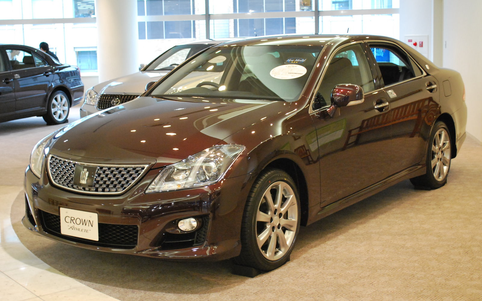 Toyota_Crown_S200